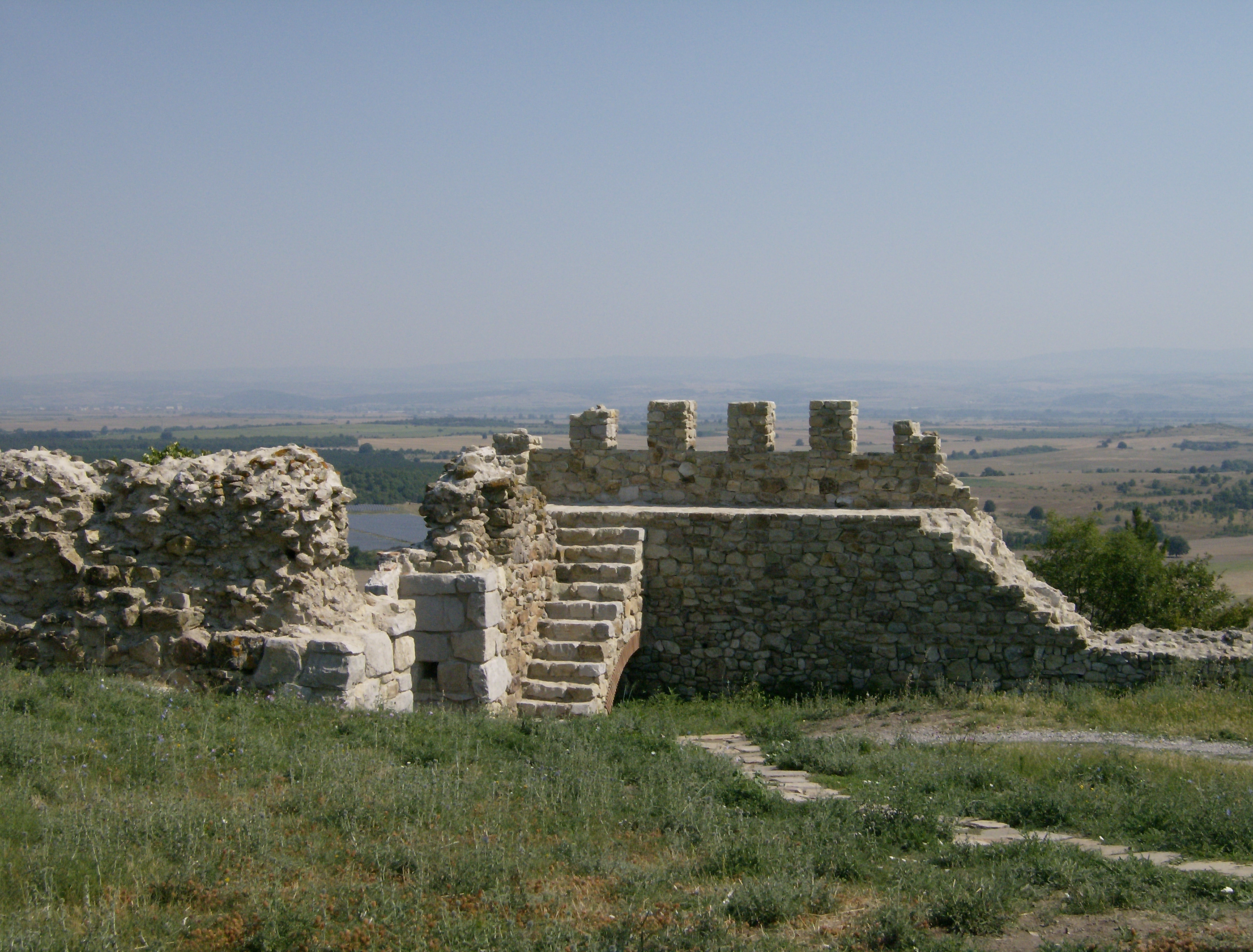 Mezek Fortress